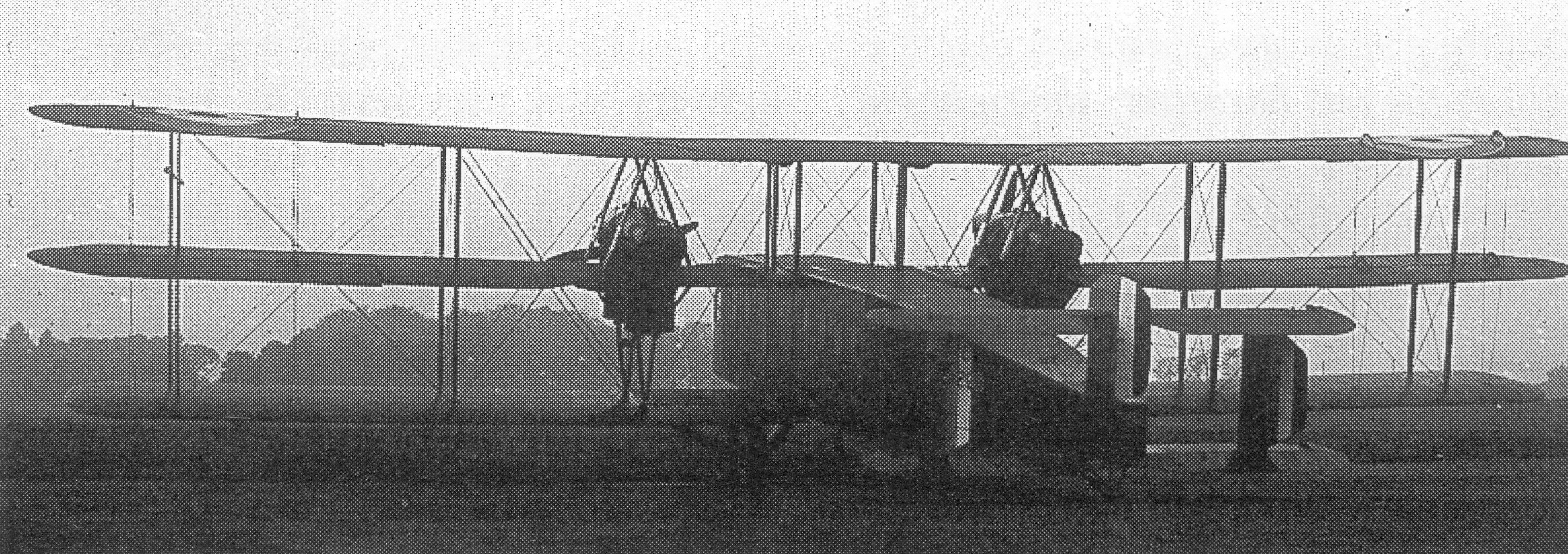 Sole Bristol Pullman (C4298) in November 1920